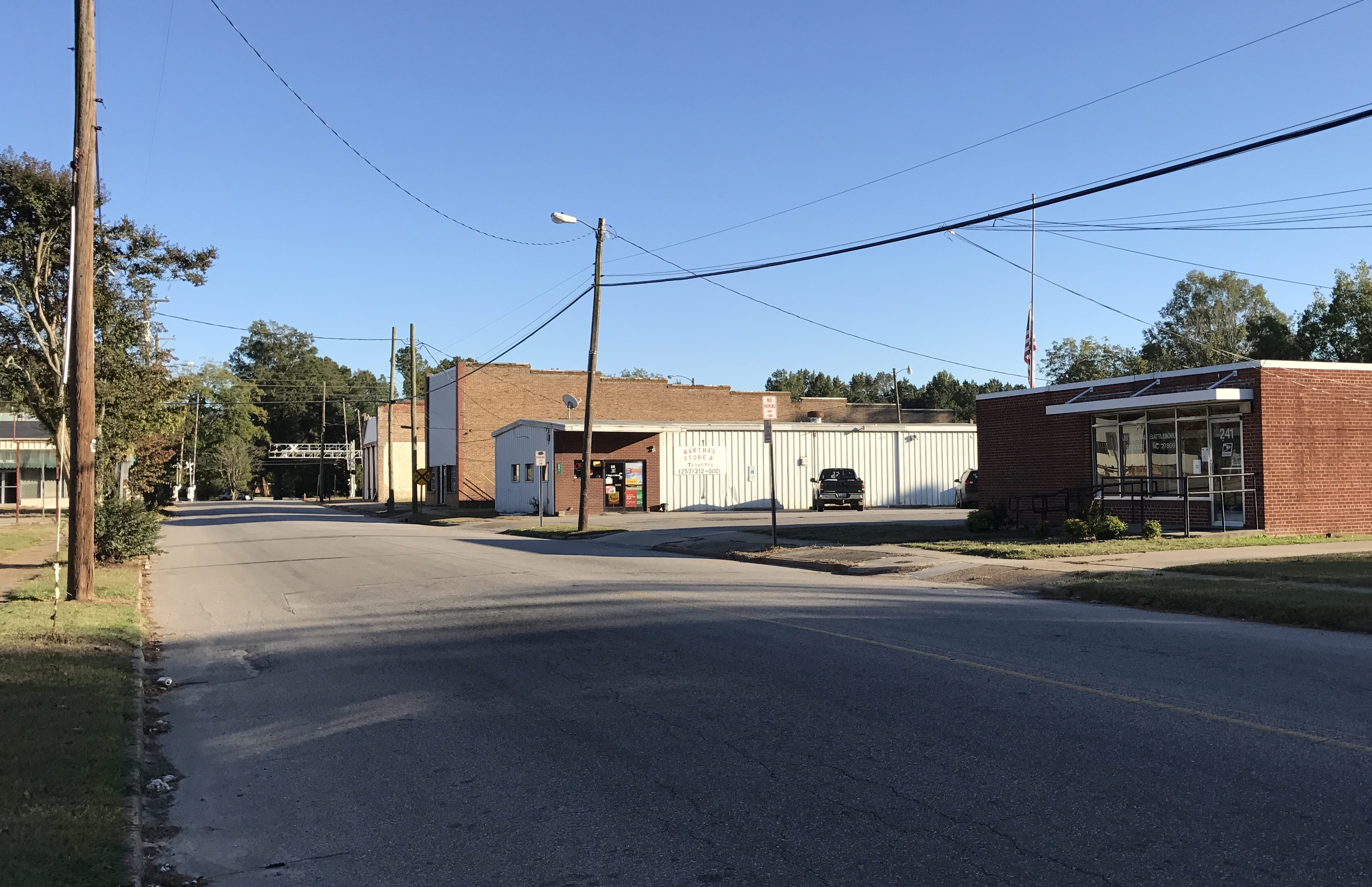 Battleboro. US Post office at the right.